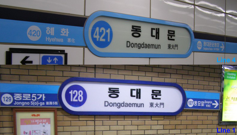 Dongdaemun Subway Station Name Top : Line 4 Bottom : Line 1